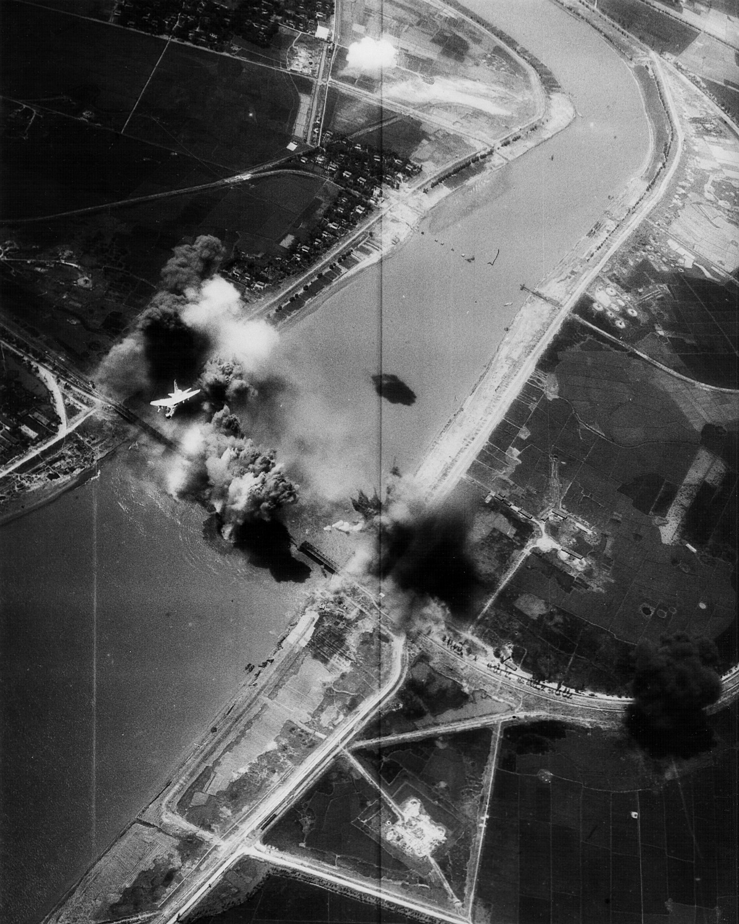 A U.S. Navy LTV A-7E Corsair II (BuNo 157526, pilot Mike A. "Baby" Ruth) of Attack Squadron VA-195 Dambusters bombs the Hai Duong railway and highway bridge in North Vietnam. VA-195 was assigned to Attack Carrier Air Wing 11 (CVW-11) aboard the aircraft carrier USS Kitty Hawk (CVA-63) for a deployment to Vietnam from 17 February to 28 November 1972. On 10 May 1972, "Operation Linebacker I" commenced, the U.S. Navy's contribution to the air offensive against North Vietnam consisted of 176 attack sorties, 60% of them flown by A-7 aircraft.